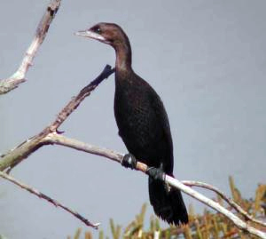 Microcarbo pygmeus — Pygmy cormorant. In the Aammiq Wetland Biosphere reserve, Lebanon.